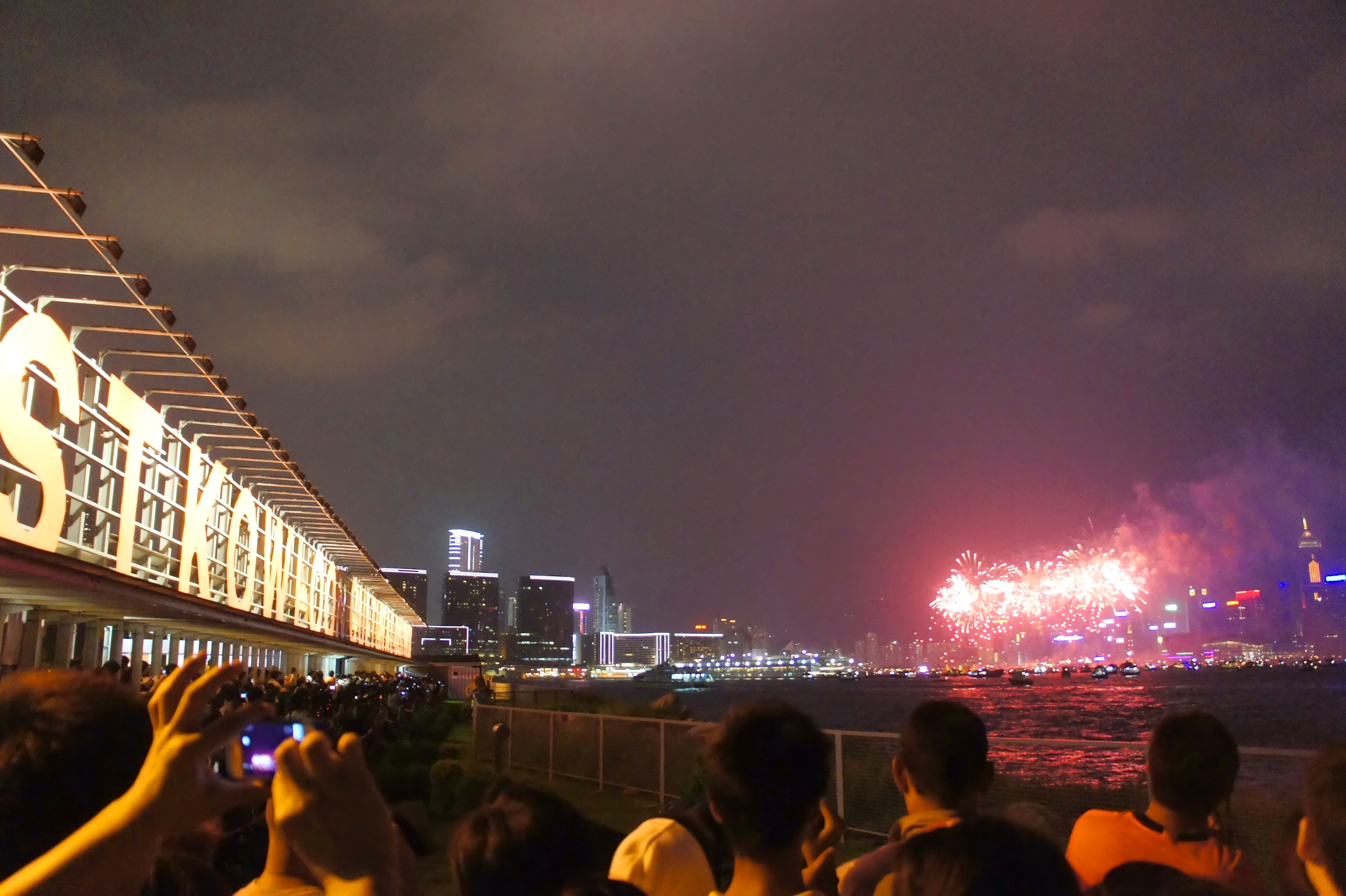 National Day (People's Republic of China) Fireworks Extravaganza at the Victoria Harbour on October 1, 2012, Hong Kong. (viewing from the West Kowloon Waterfront Promenade)